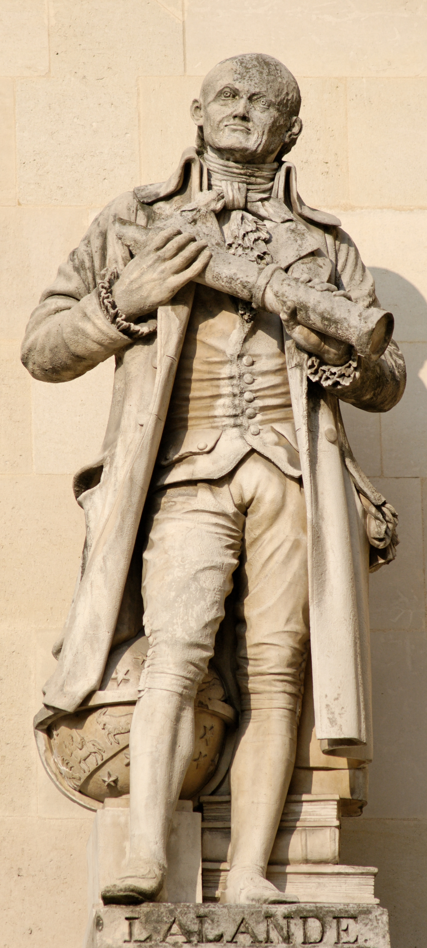 Lalande by Jean-Joseph Perraud. Stone, ca. 1853. 6th statue from Pavillon Colbert to Pavillon Sully, Cour Napoléon in the Louvre.